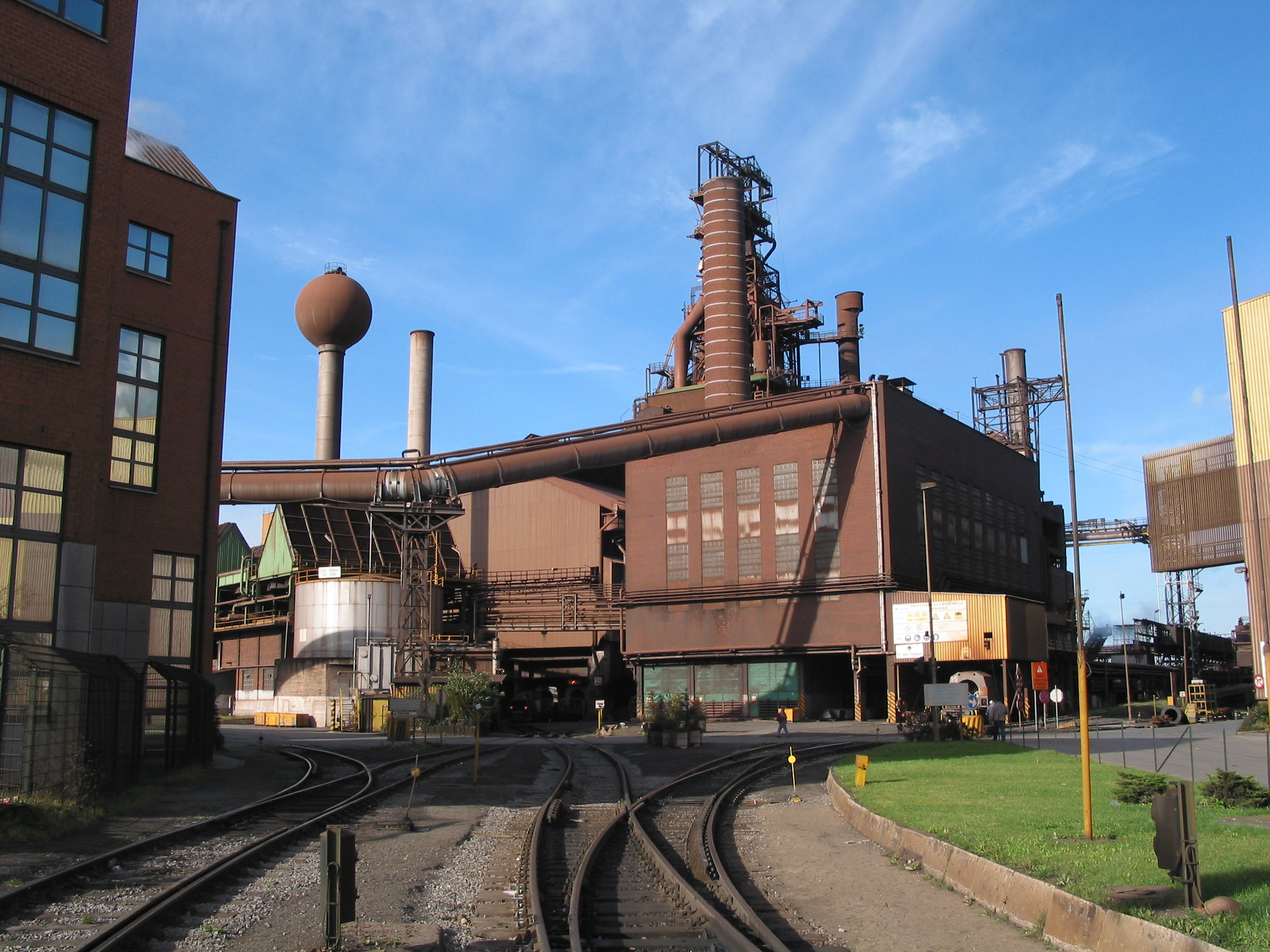 Marcinelle (Belgium), the blast furnace (CARCID-DUFERCO).